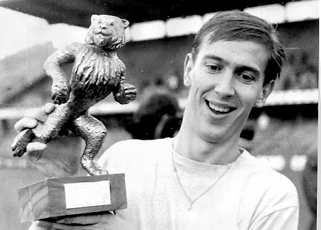 Dag Szepanski, Allsvenskan topscorer 1967